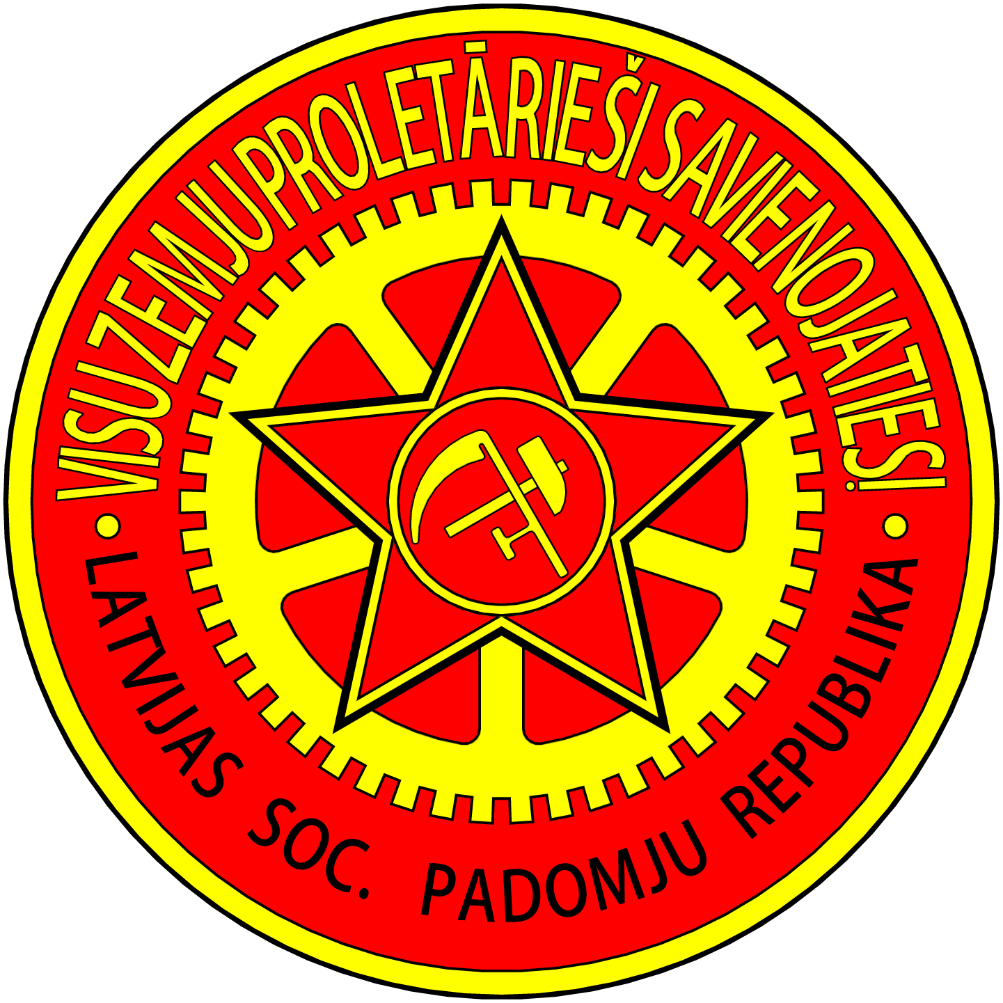 Coat of arms of the Latvian Socialist Soviet Republic (1919-1920)